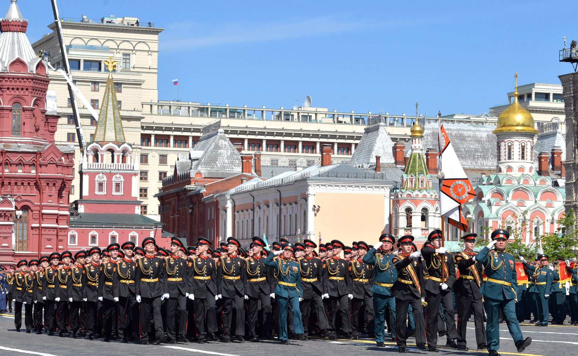 2018 Moscow Victory Day Parade